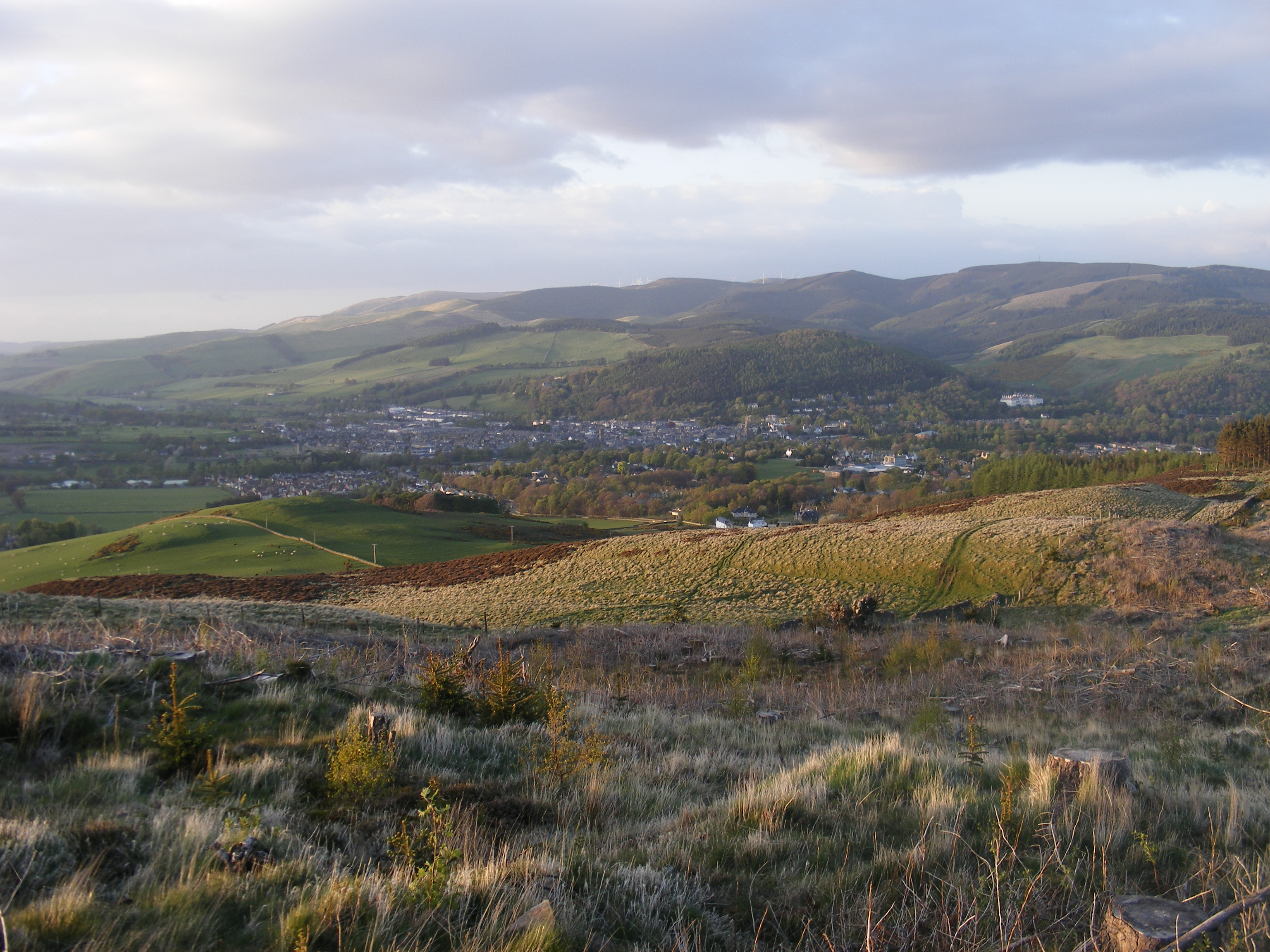 A view over Peebles, Borders, Scotland, from one of several access routes to nearby Cademuir Hill.